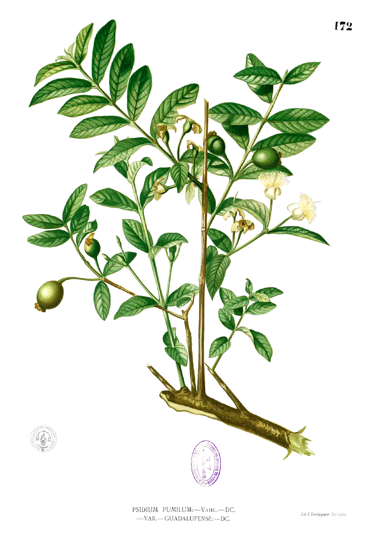 Plate from book